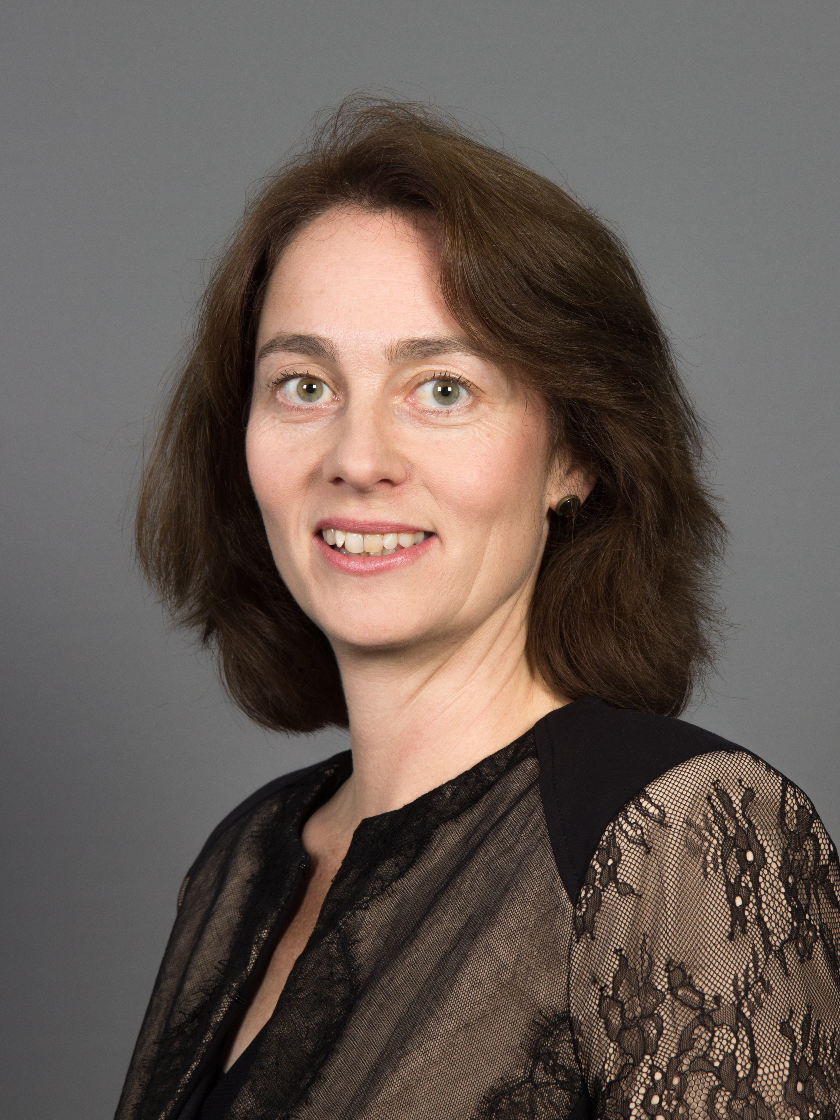 Katarina Barley, member of the German Bundestag